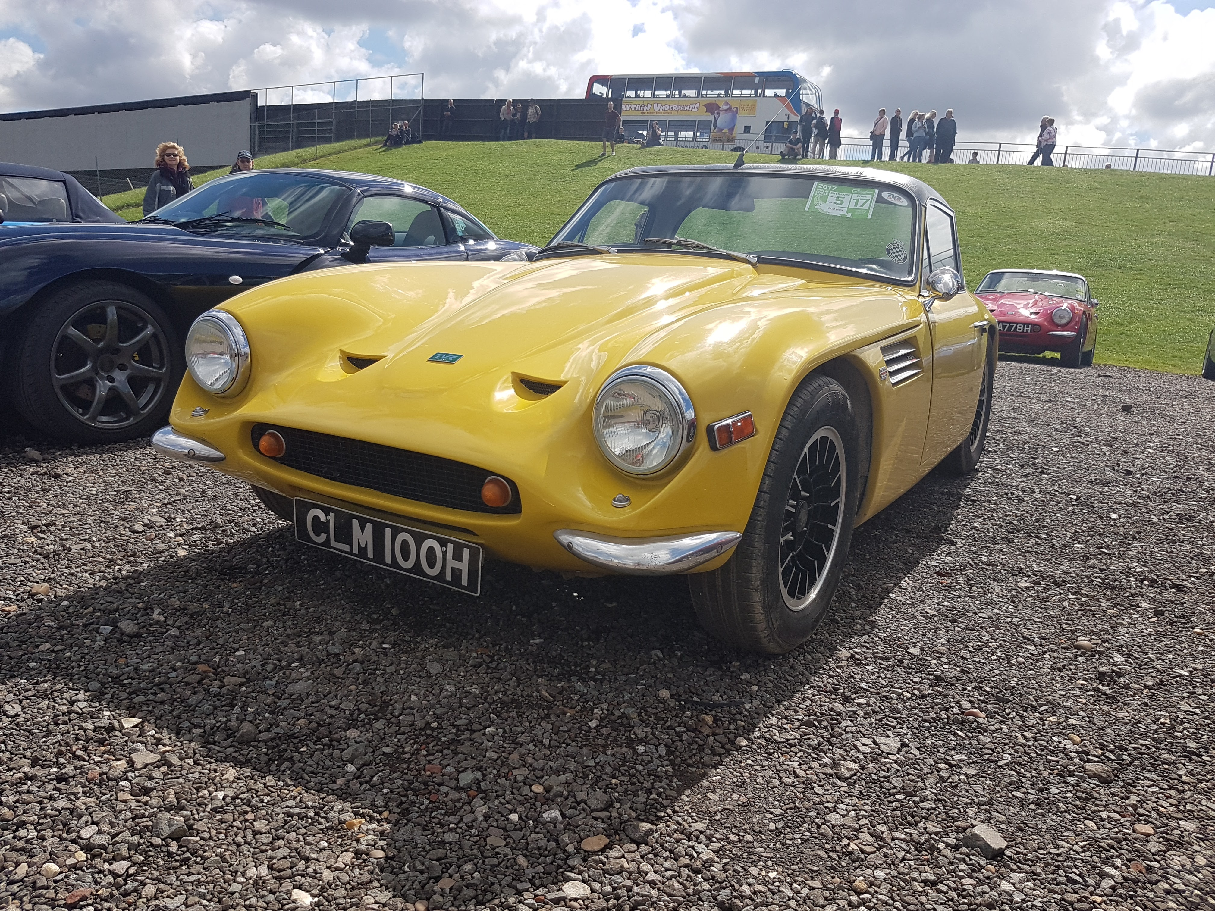 From the 2017 Silverstone Classic